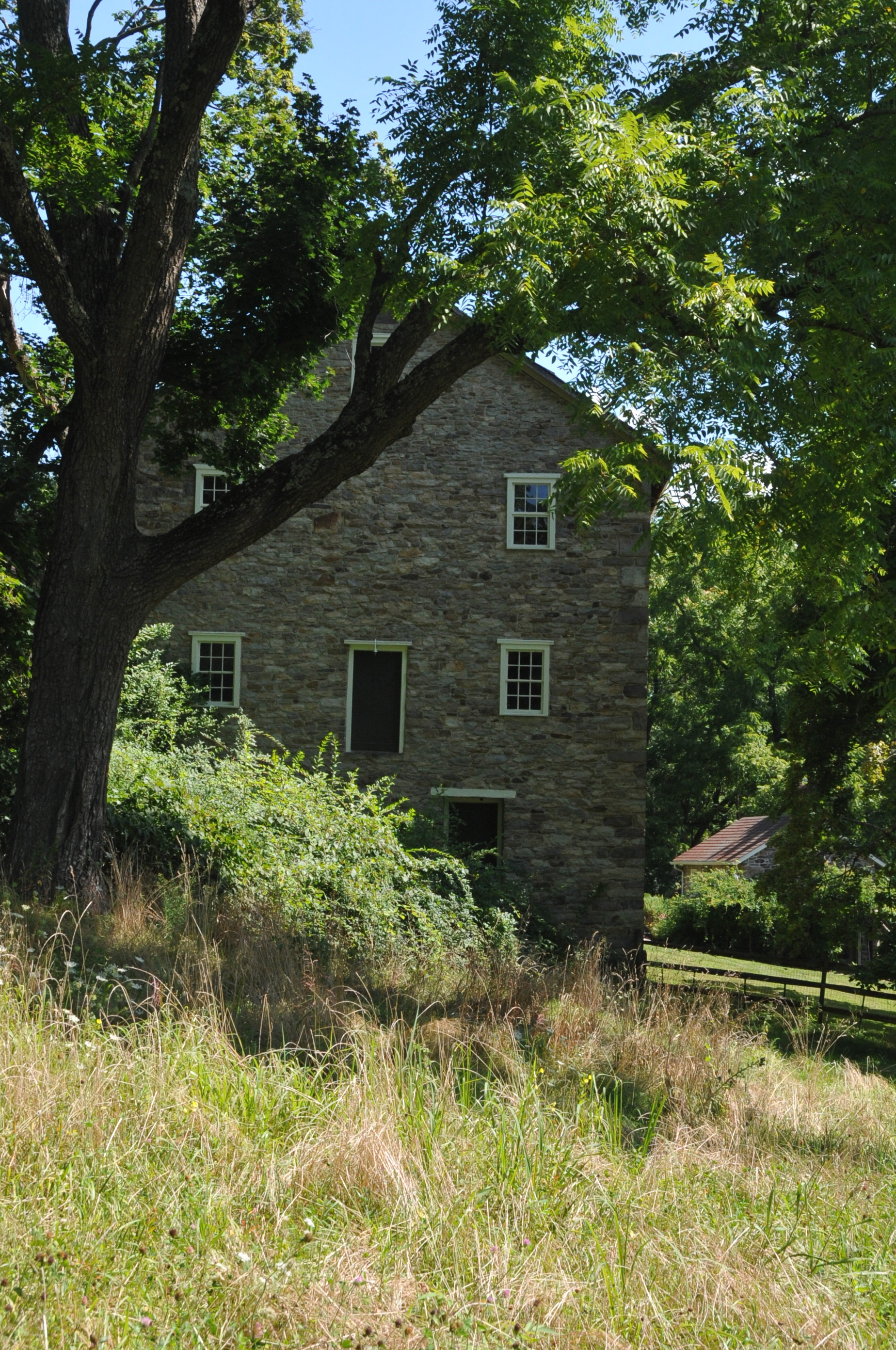 OPDYKE’S MILL; CIRCA 1735 AND PERHAPS THE FIRST MILL IN DELAWARE TOWNSHIP; A MAJOR CONTRIBUTING SITE IN THE Headquarters Historic District